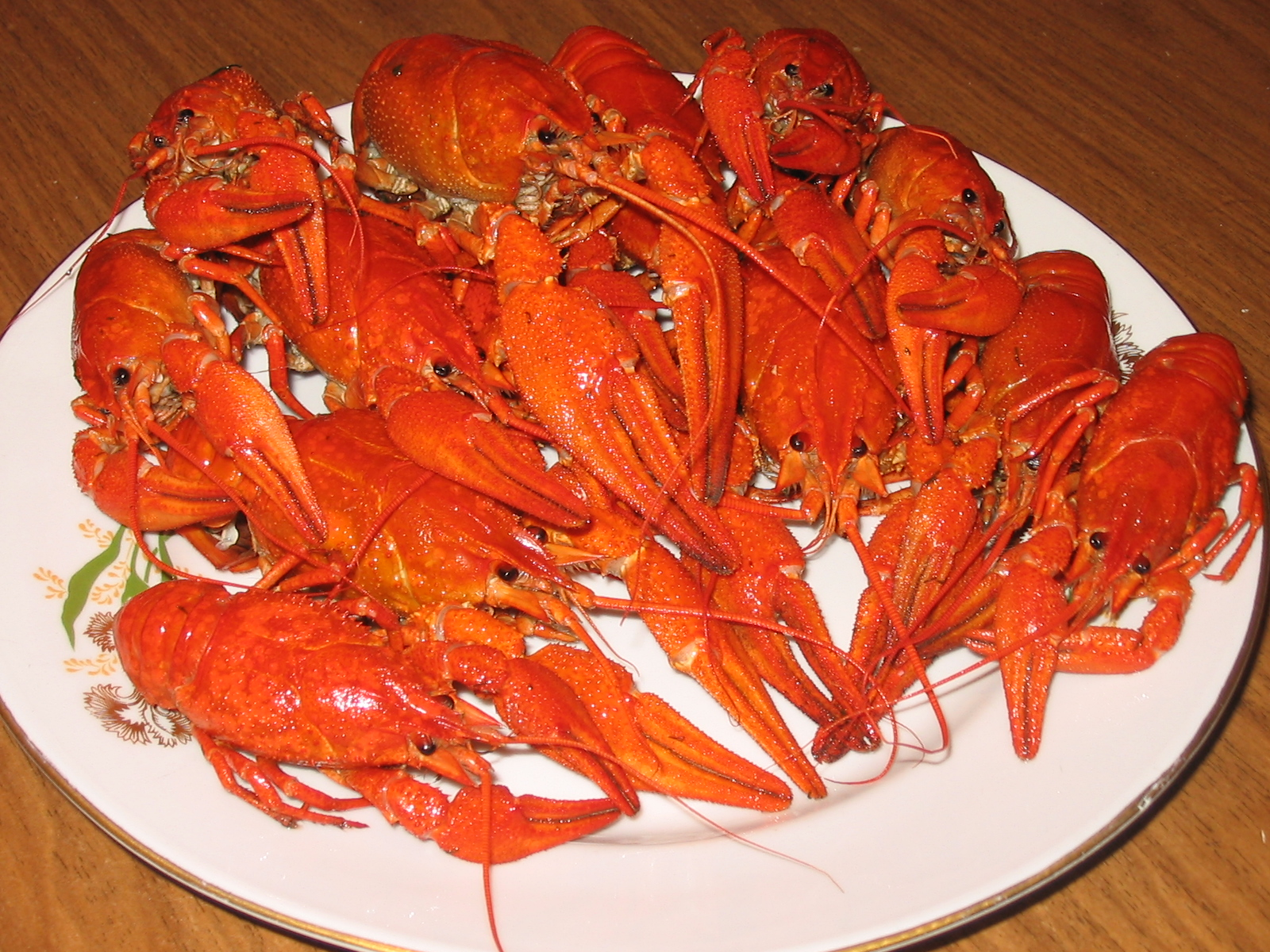 Boiled crawfishes